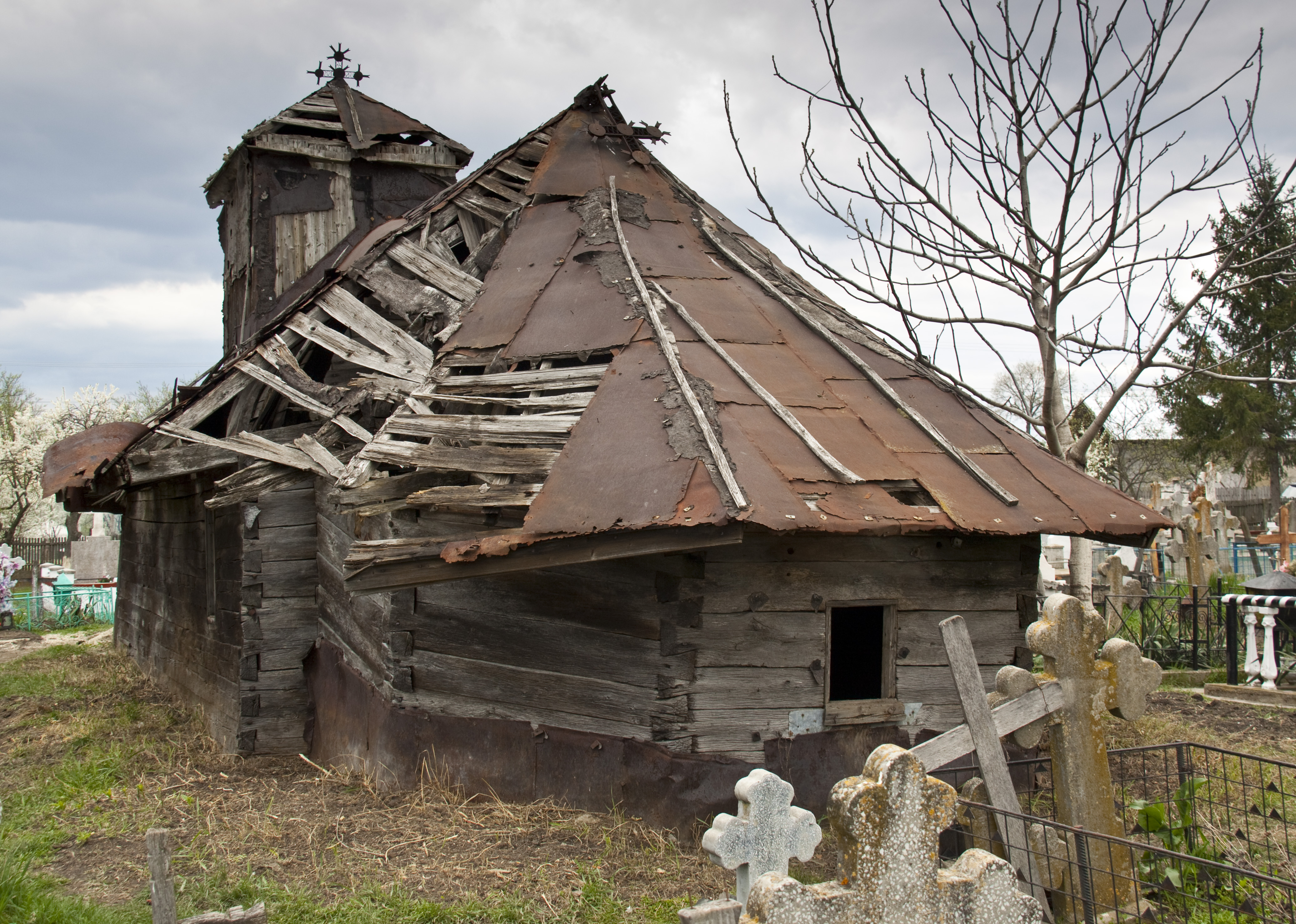 Puranii de Sus, Teleorman county, Romania: the wooden church.